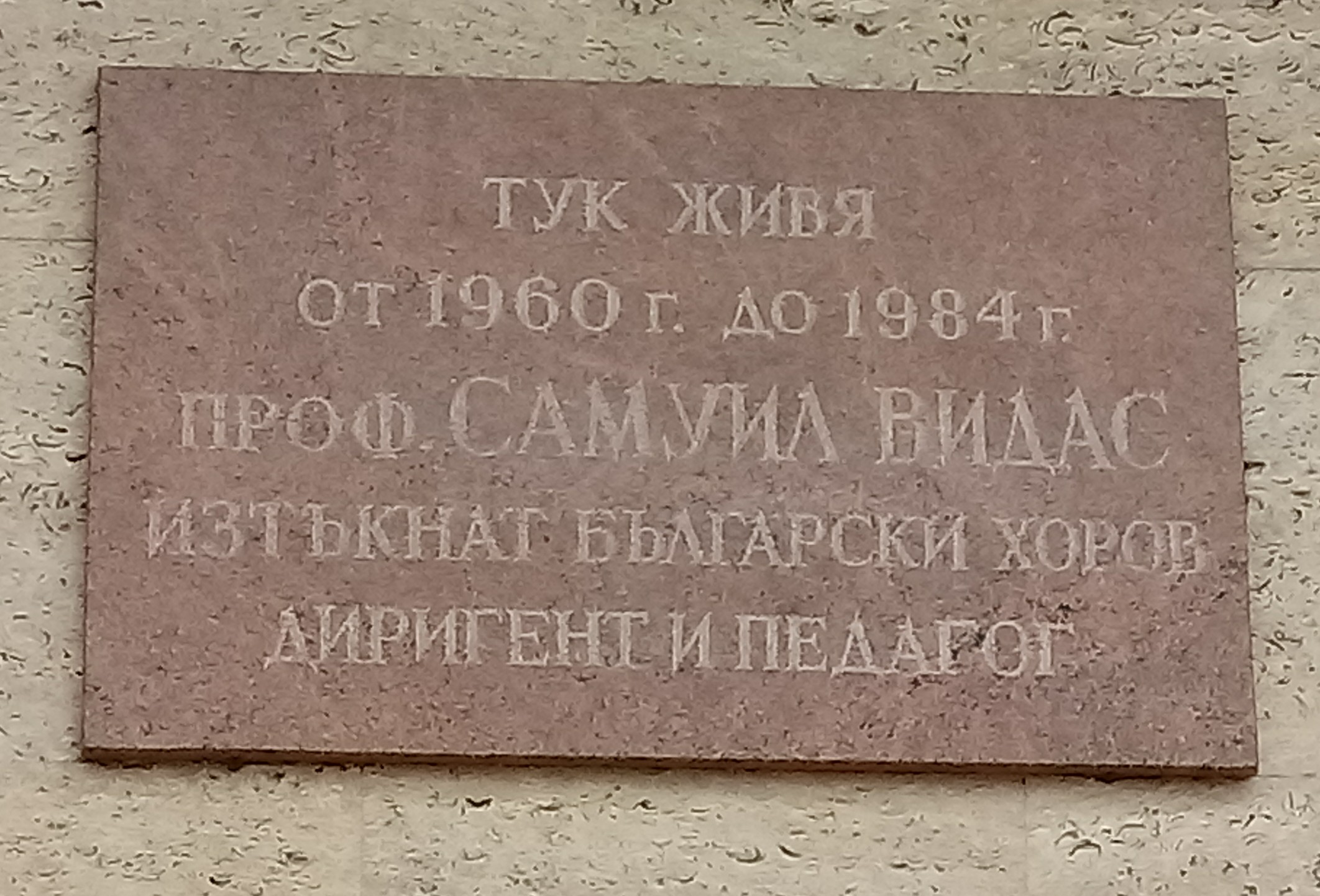 Samuil Vidas memorial plaque, 50 Sv. Georgi Sofiyski Blvd., Sofia